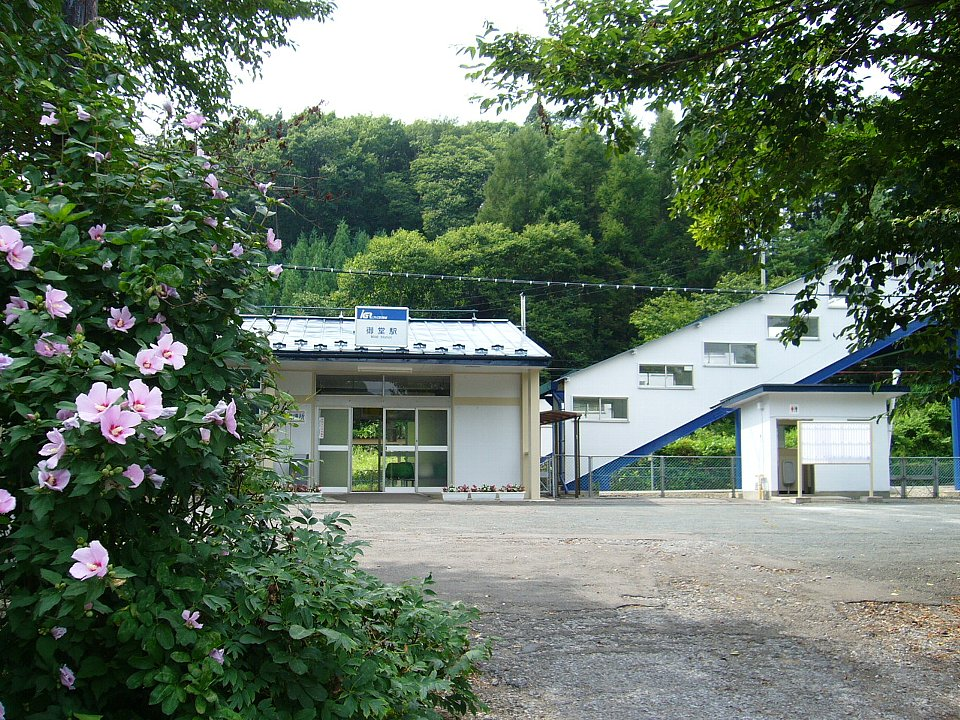 Mido Station, Iwate Town, Iwate, Japan